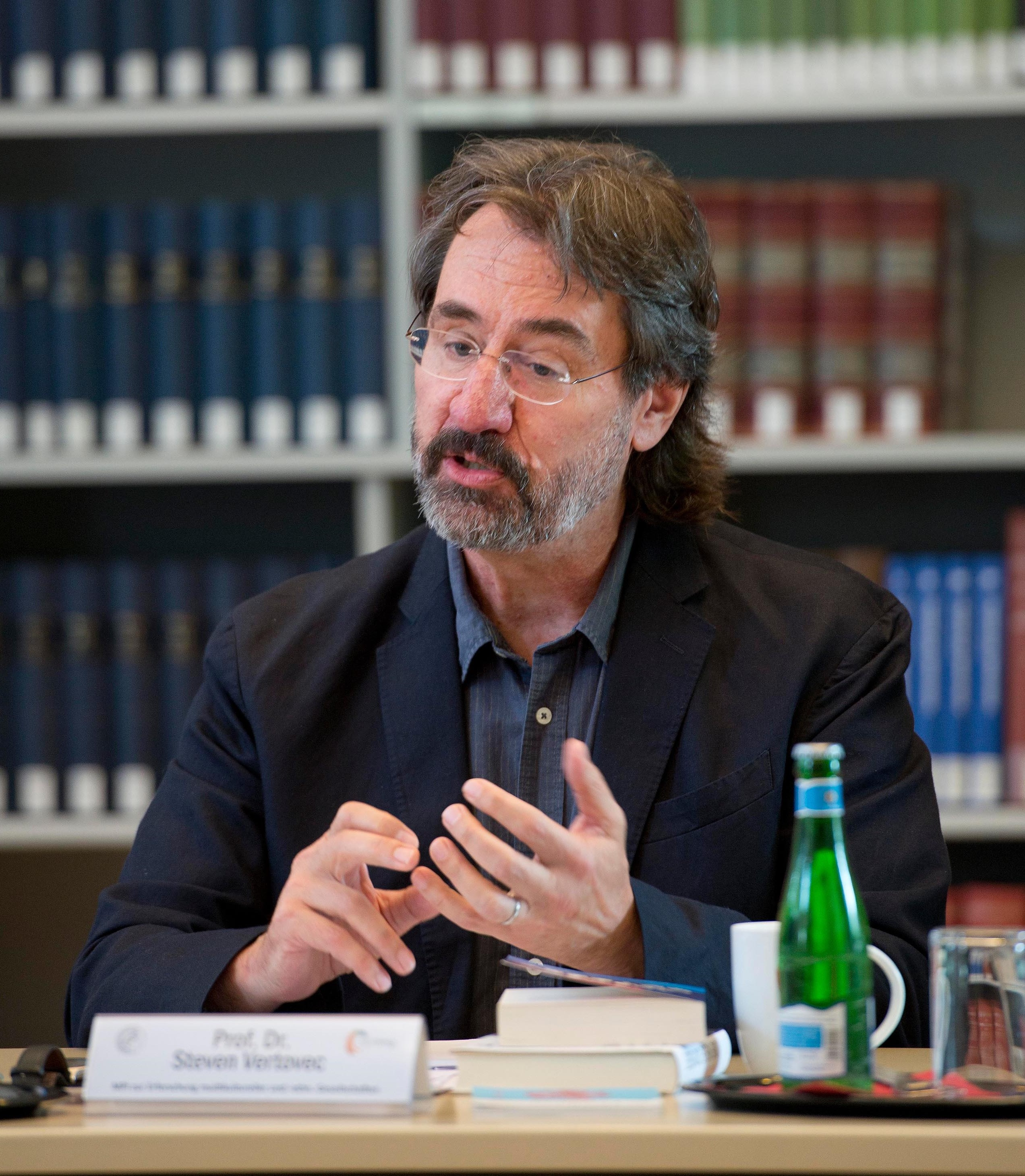 Steven Vertovec speaking at the mpi mmg Göttingen in the context of the Literaturherbst